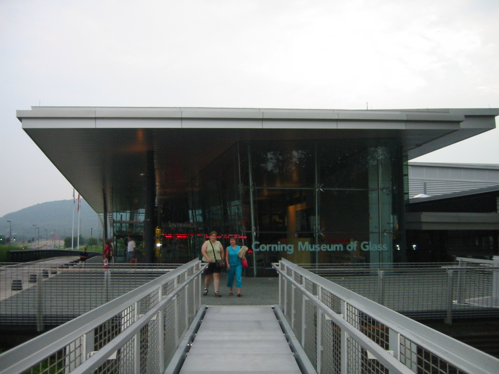 Corning Museum of Glass — entrance footbridge. Located at 1 Museum Way, Corning, New York 14830.